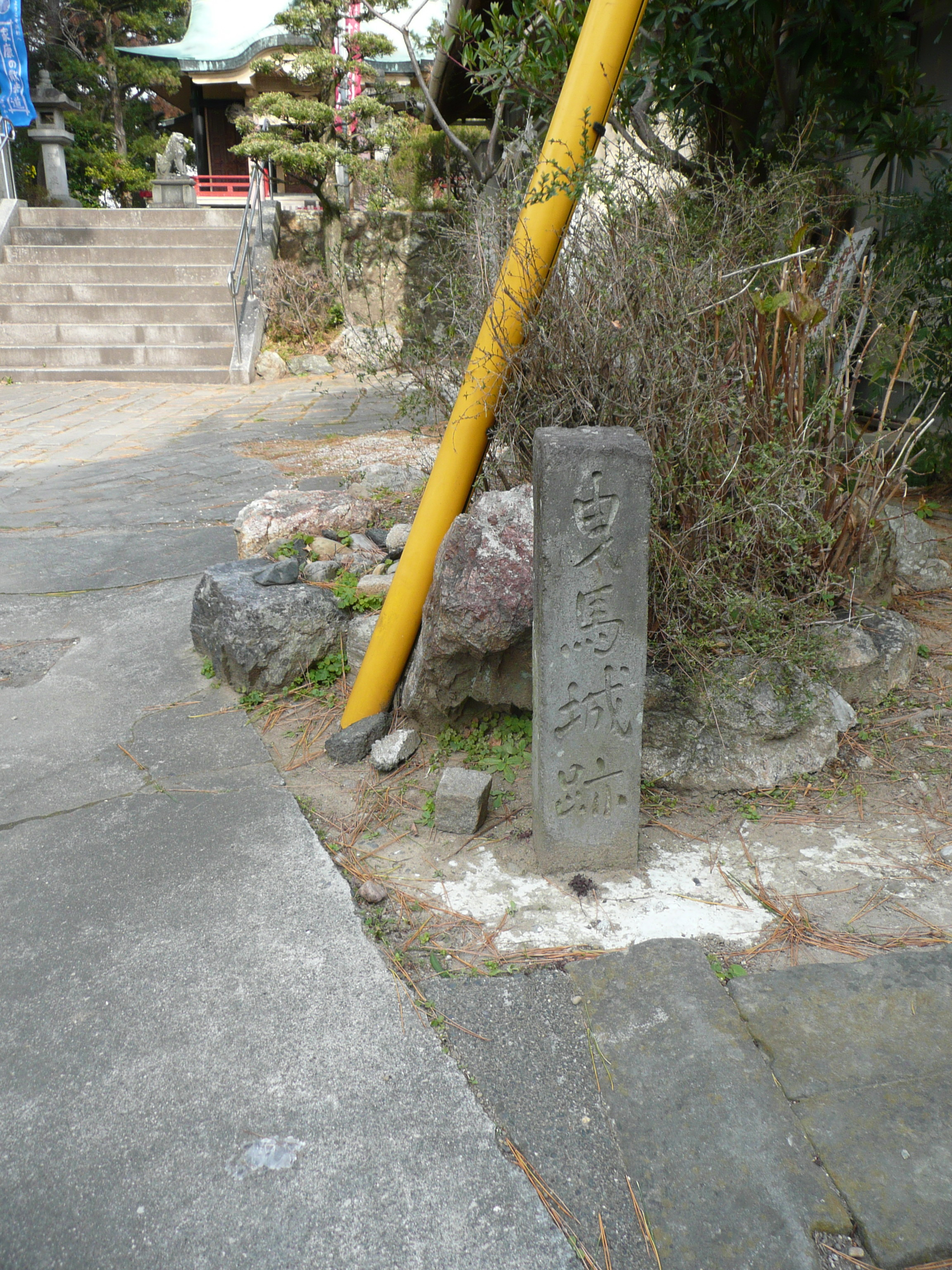 曳馬城の石碑